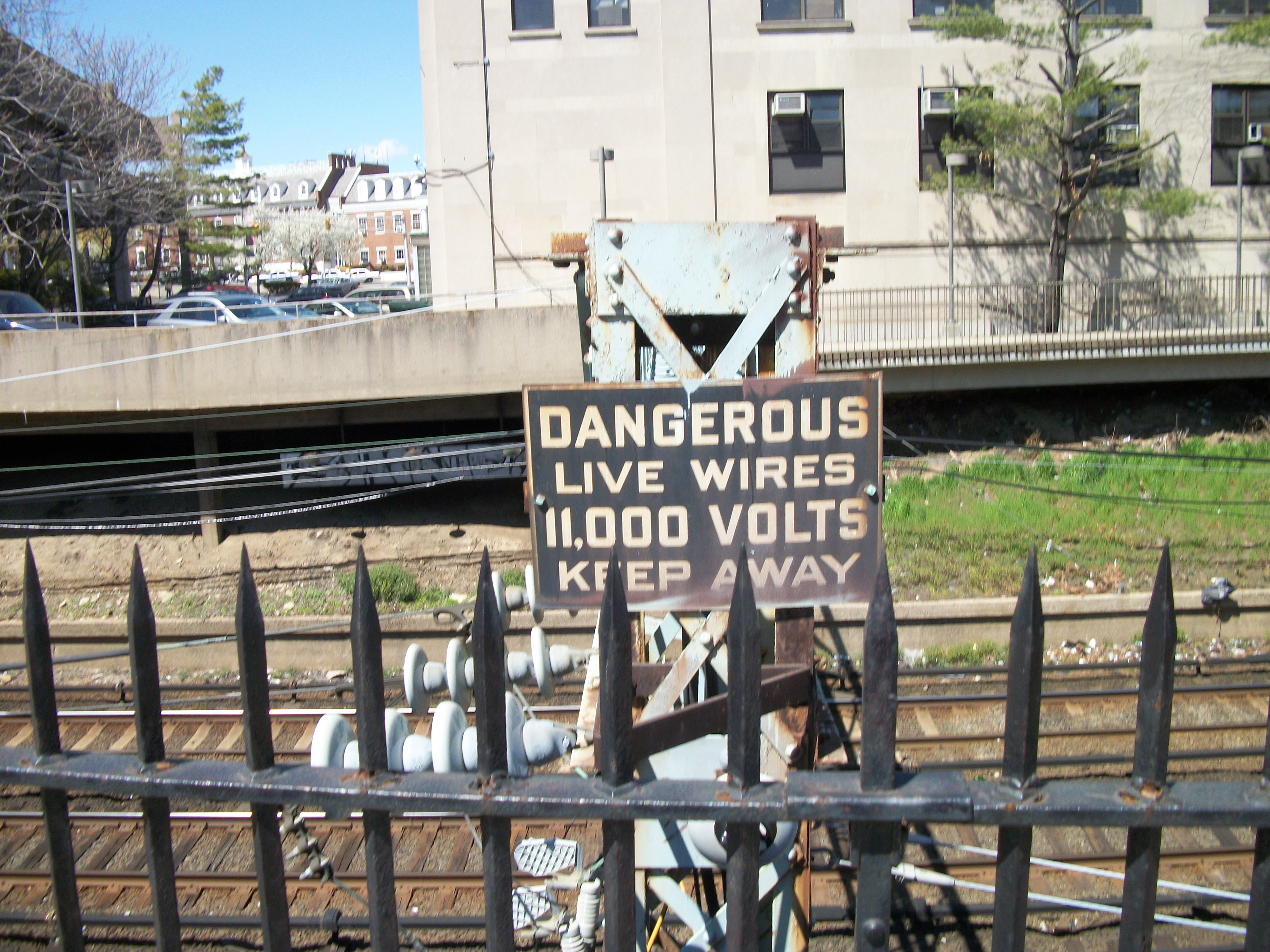 An old New Haven Railroad-era 11,000 volt overhead catenary line pole for the Metro-North New Haven line southwest of Mount Vernon East (Metro-North station) in Mount Vernon, New York.